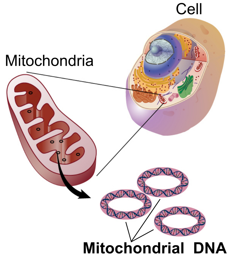 Mitochondrial DNA is the small circular chromosome found inside mitochondria. The mitochondria are organelles found in cells that are the sites of energy production. The mitochondria, and thus mitochondrial DNA, are passed from mother to offspring.